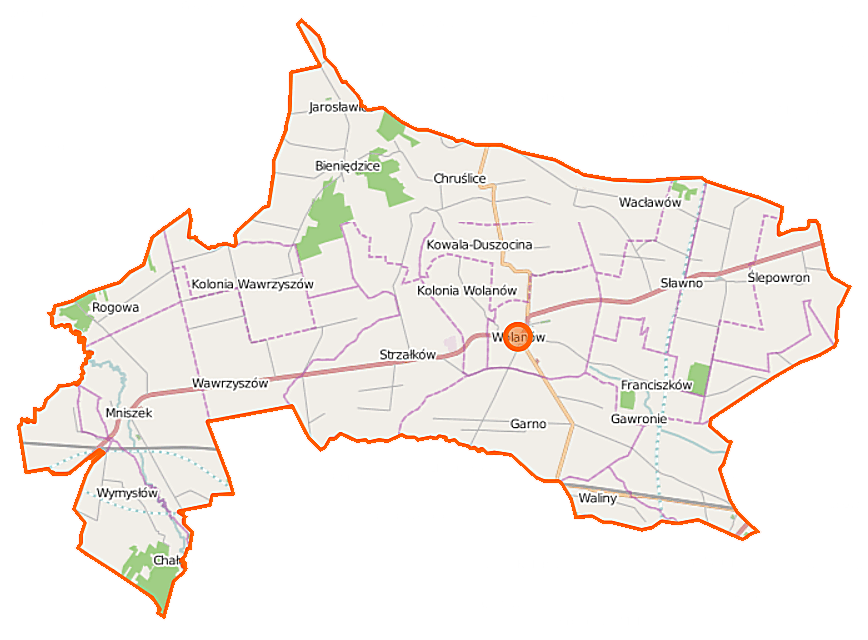 Map of Gmina Wolanów, Poland This map of Wolanów (gmina) was created from OpenStreetMap project data, collected by the community. This map may be incomplete, and may contain errors. Don't rely solely on it for navigation. Border coordinates51.437120.8332←↕→21.072151.3276